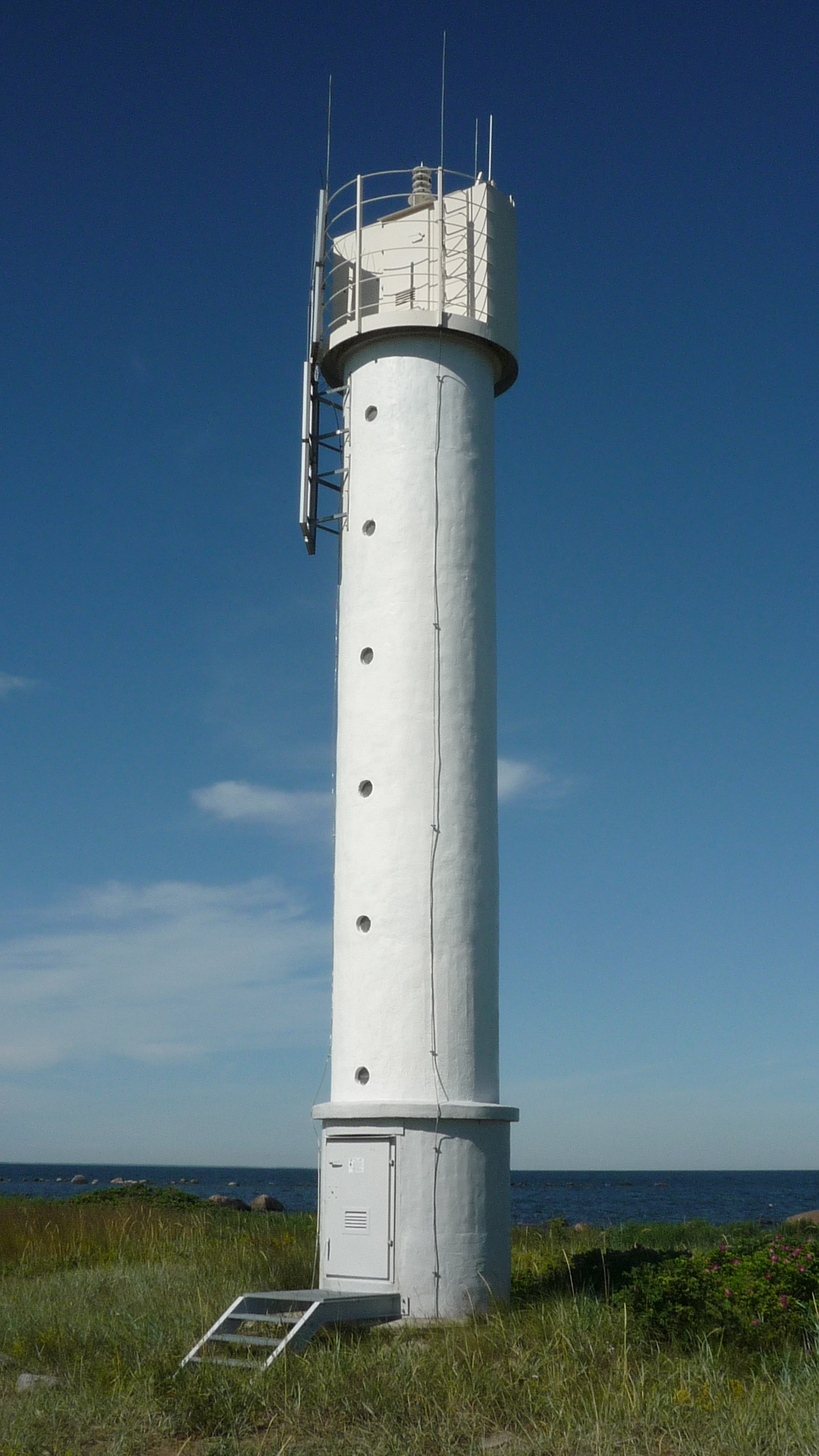 Prangli NW light beacon. Prangli island, Estonia.